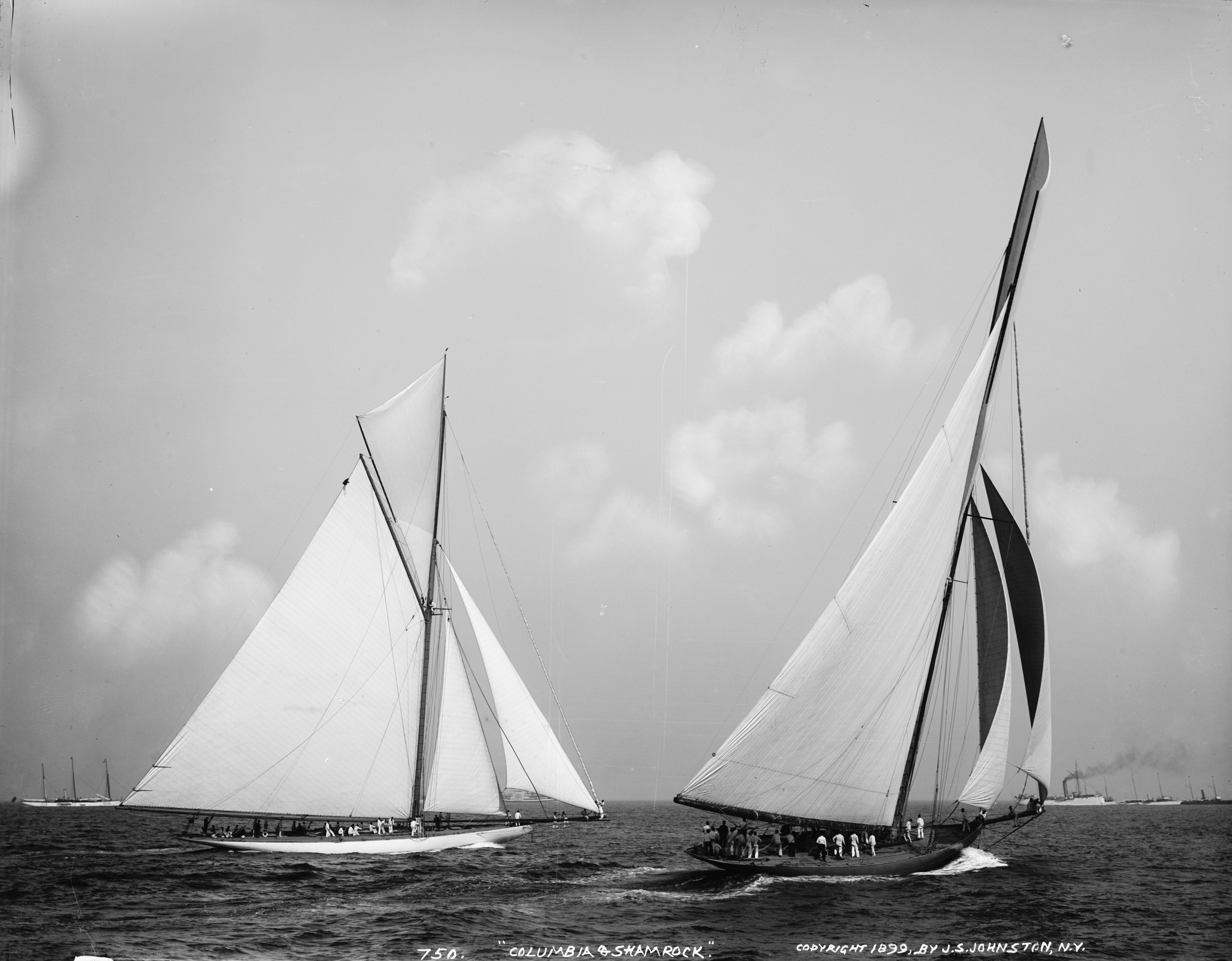 Yachts Columbia and Shamrock, the contestants in the 1899 America's Cup.